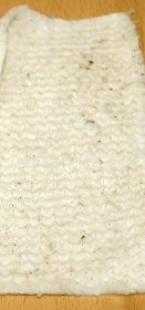 cloth, Stitched canvas